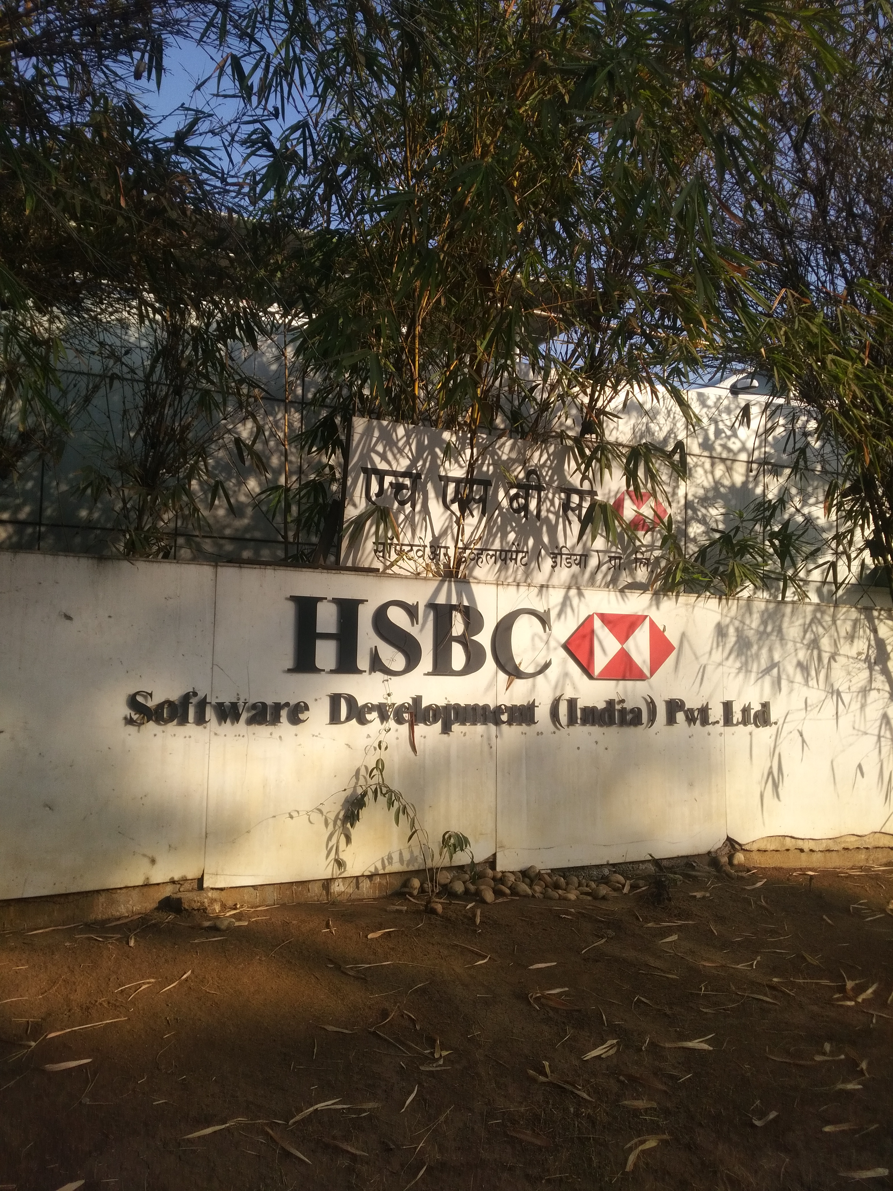 Front photo of the nameboard of HSBC Software Development (India) Pvt. Ltd., Pune